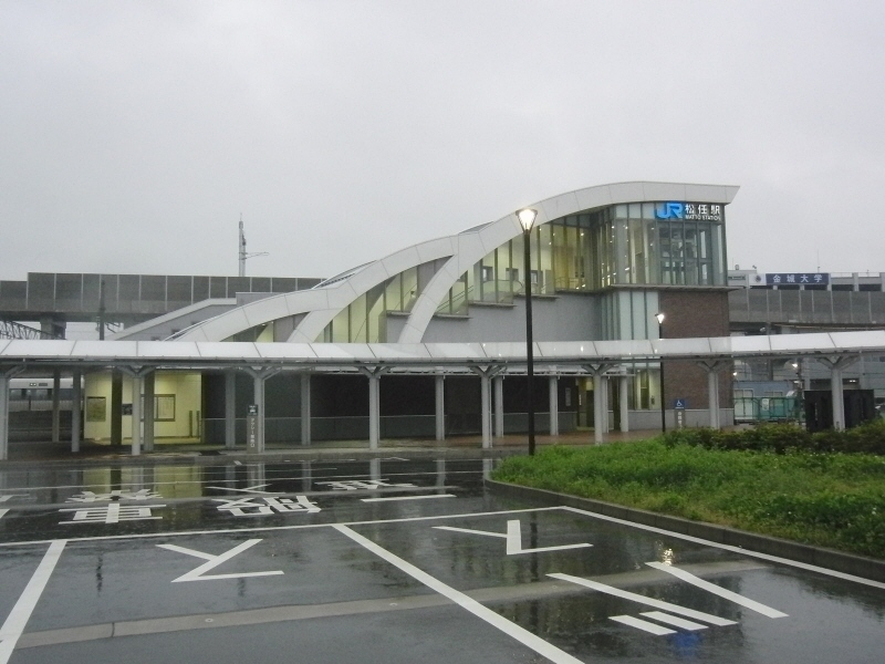 松任駅東口の写真です。